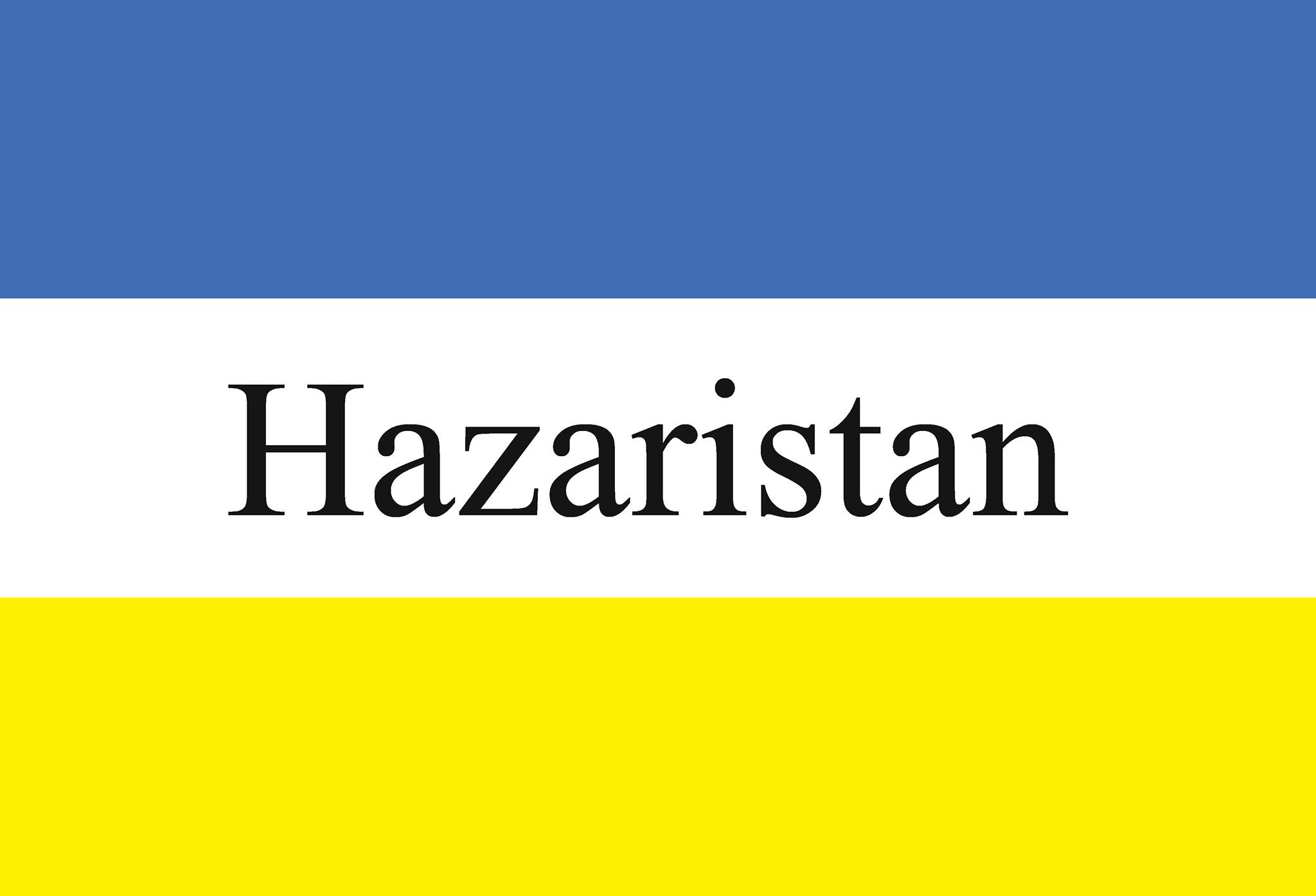 Flag of Hazaristan This flag was presented for the first time on the cover of the book: Poems for the Hazara: A Multilingual Poetry Anthology and Collaborative Poem by 125 Poets from 68 Countries (ISBN-13: 978-0983770862) In the copyright page of the book, it has mentioned that the Flag of Hazaristan, yellow, white and blue may be used freely.